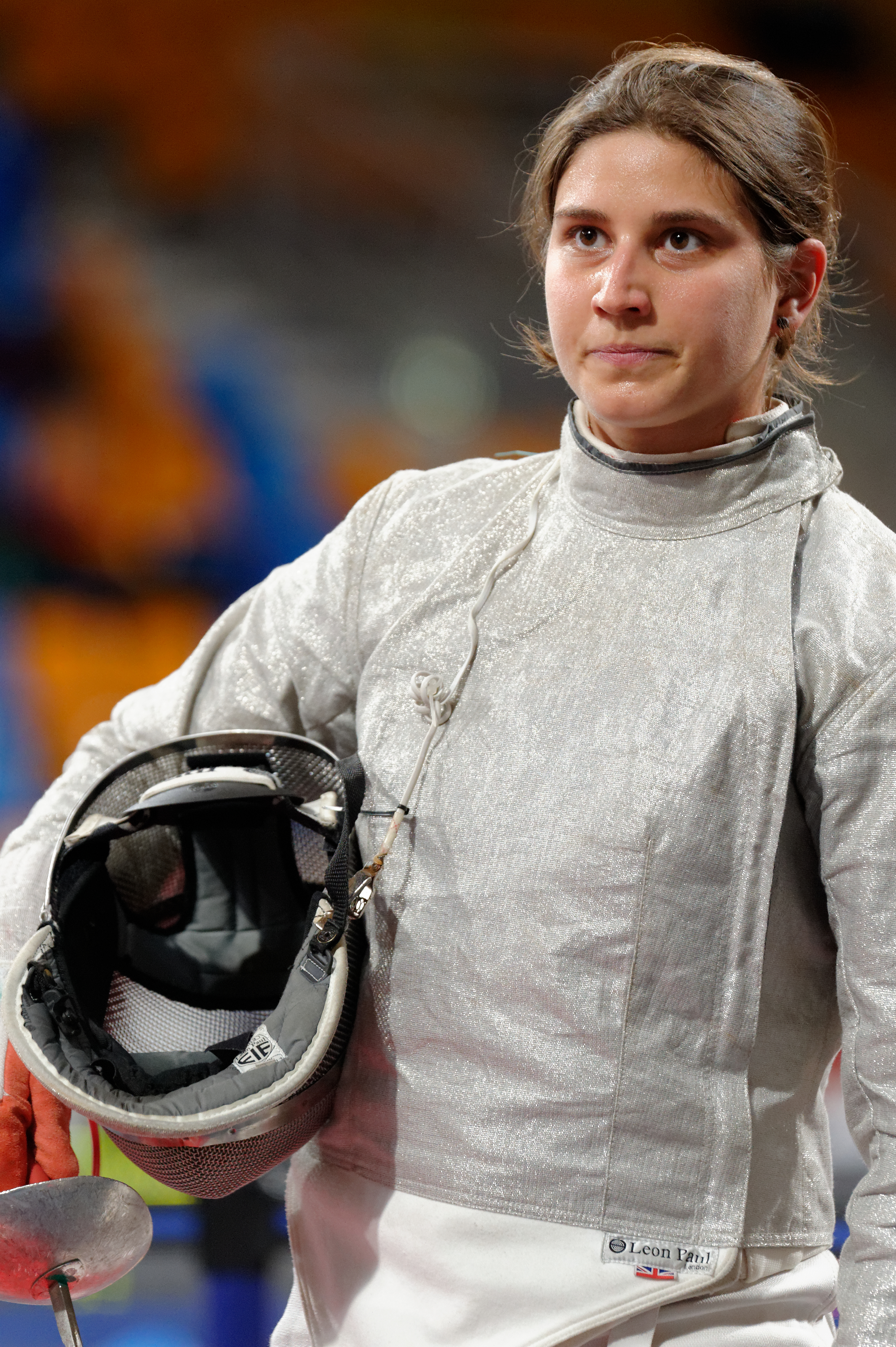 Spain's Araceli Navarro in the team event of the 2014–15 Orléans World Cup in women's sabre.